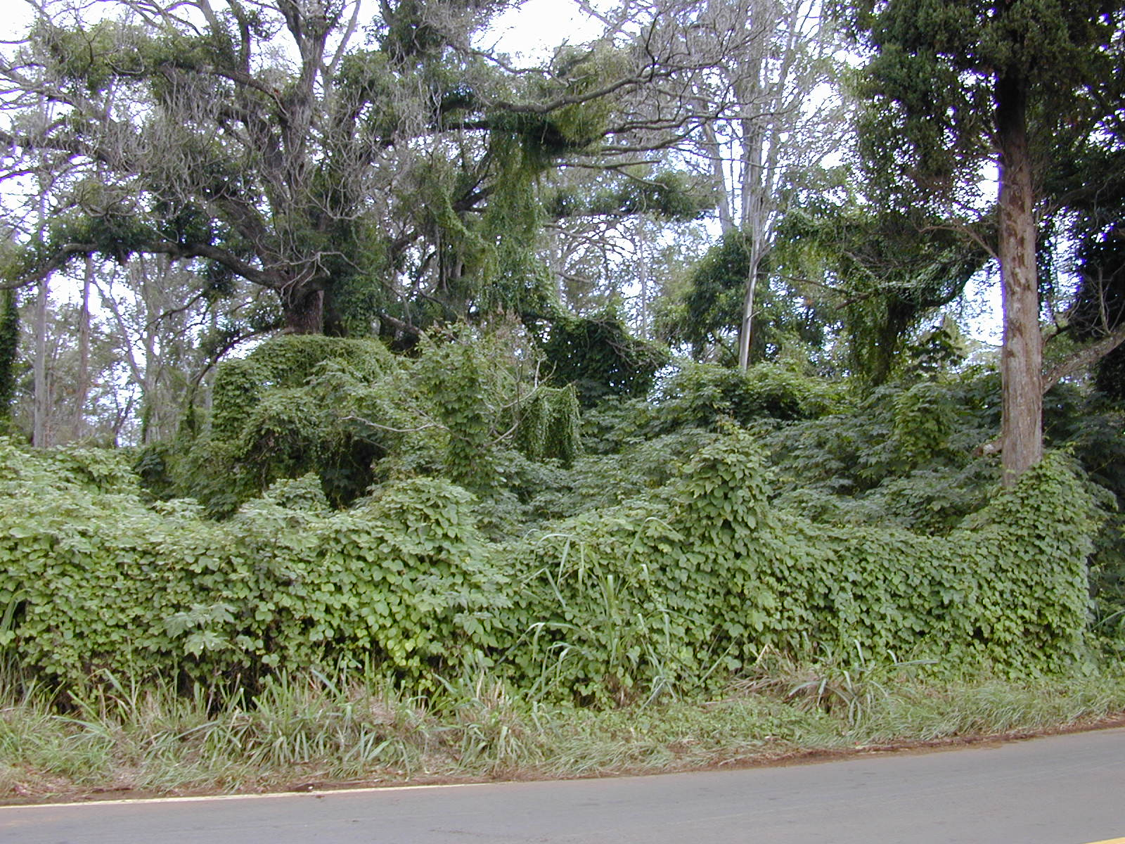 Anredera cordifolia (climbing vegetation). Location: Maui, Ulupalakua